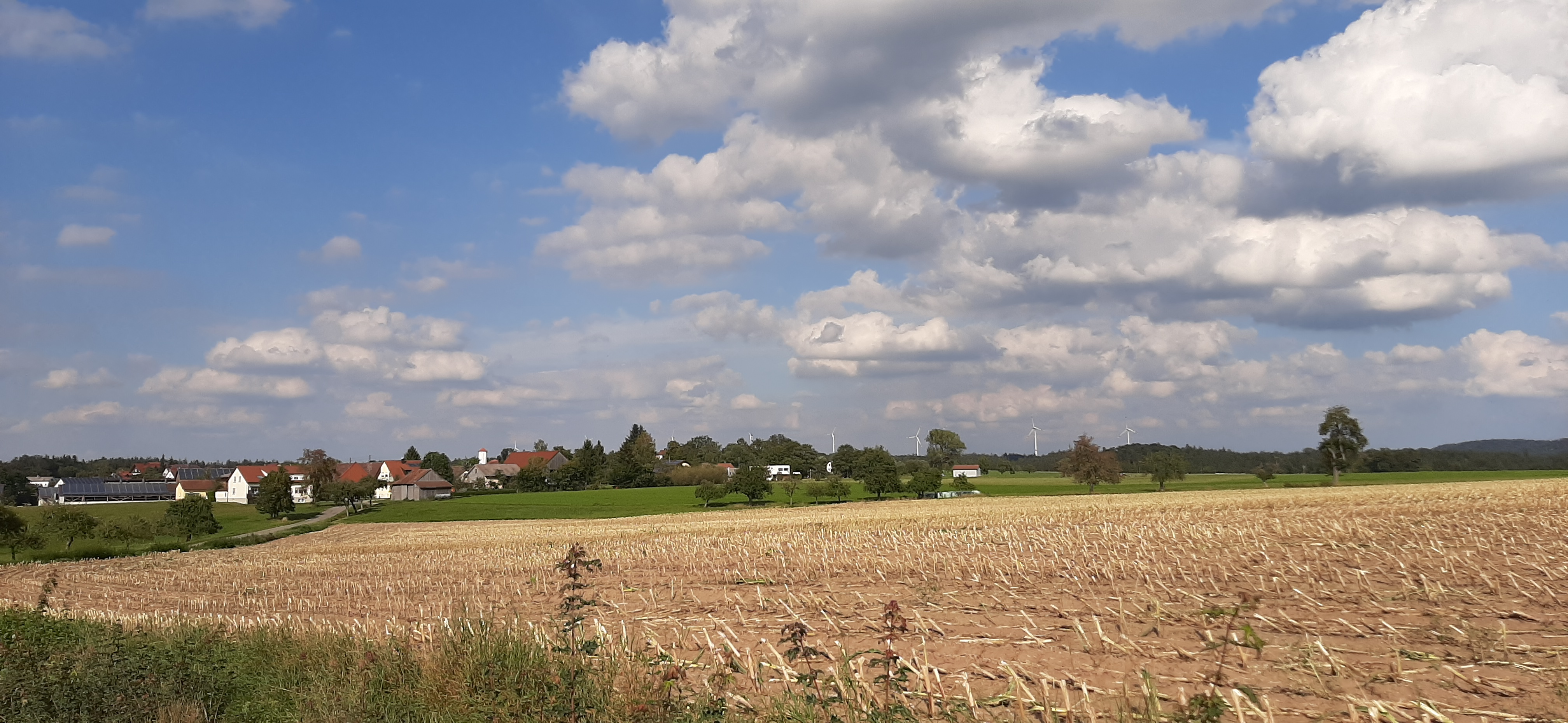 View of Dankoltsweiler village in the community of Jagstzell, Baden-Württemberg, Germany